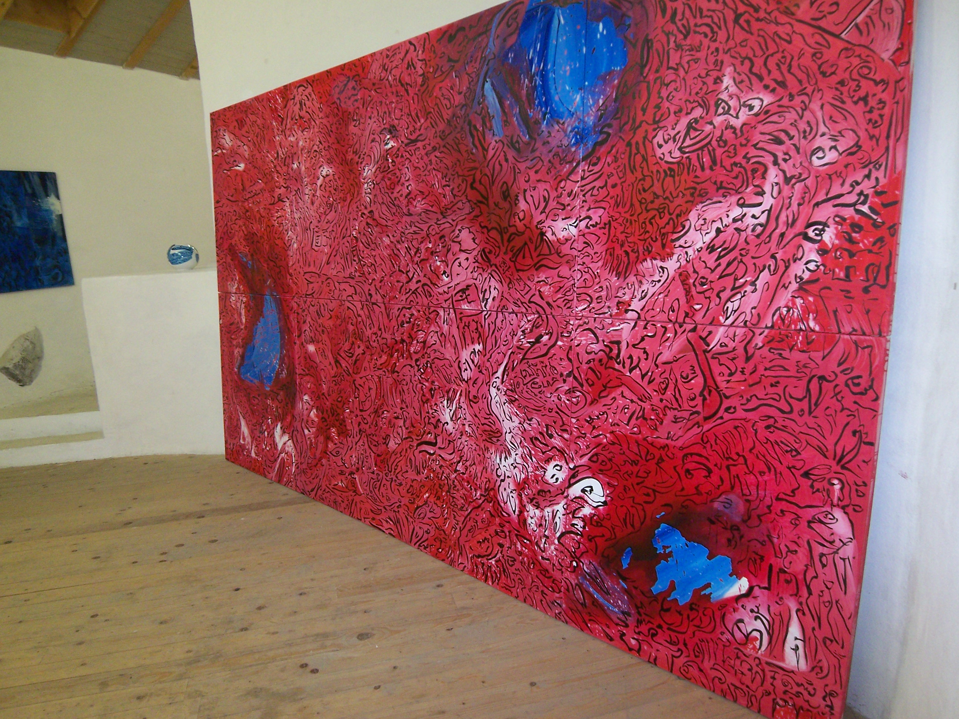 Painting